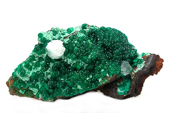 Adamite, Calcite Locality: Ojuela Mine, Mapimí, Municipio de Mapimí, Durango, Mexico (Locality at ) Size: miniature, 5.6 x 3 x 1.8 cm Cuprian Adamite with Calcite This is a rich and colorful specimen from a small one-time find of botryoidal, intense green adamite - quite different than other adamite found at any time at this locality before or since! It is similar to old Greek material from Laurion, but the matrix is classic Ojuela mine gossan and quite distinct. An amazingly colorful specimen, from a totally unique pocket amidst all the other adamite found here! Marty's collection was world-famous for his suite of Mexican minerals but of those he was most proud of and dedicated to building the adamite suite. This is a significant pedigree for a Mexican adamite, but its a quality piece in and of itself, as well.